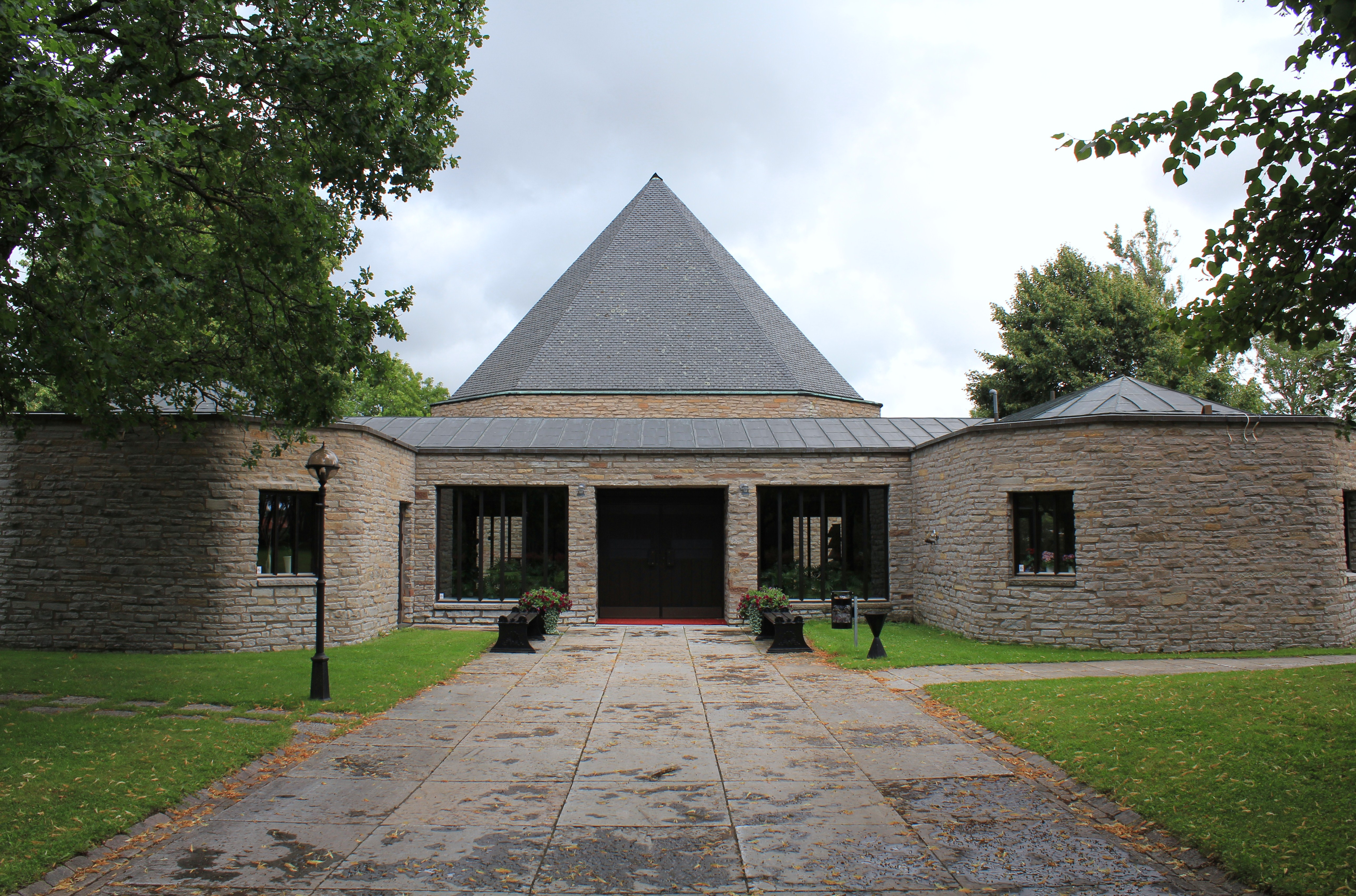 Sankta Birgitta kapell in Skövde, Sweden.